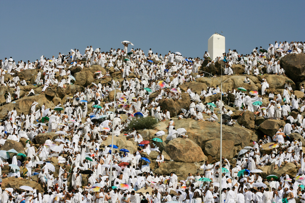 Mount Arafat with lots of pilgrims